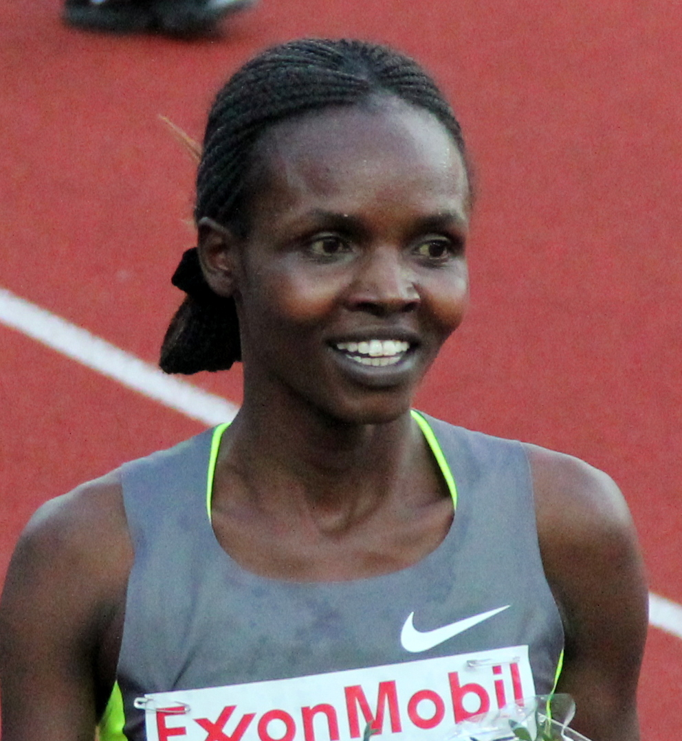 Milcah Chemos Cheywa at the 2012 Bislett Games